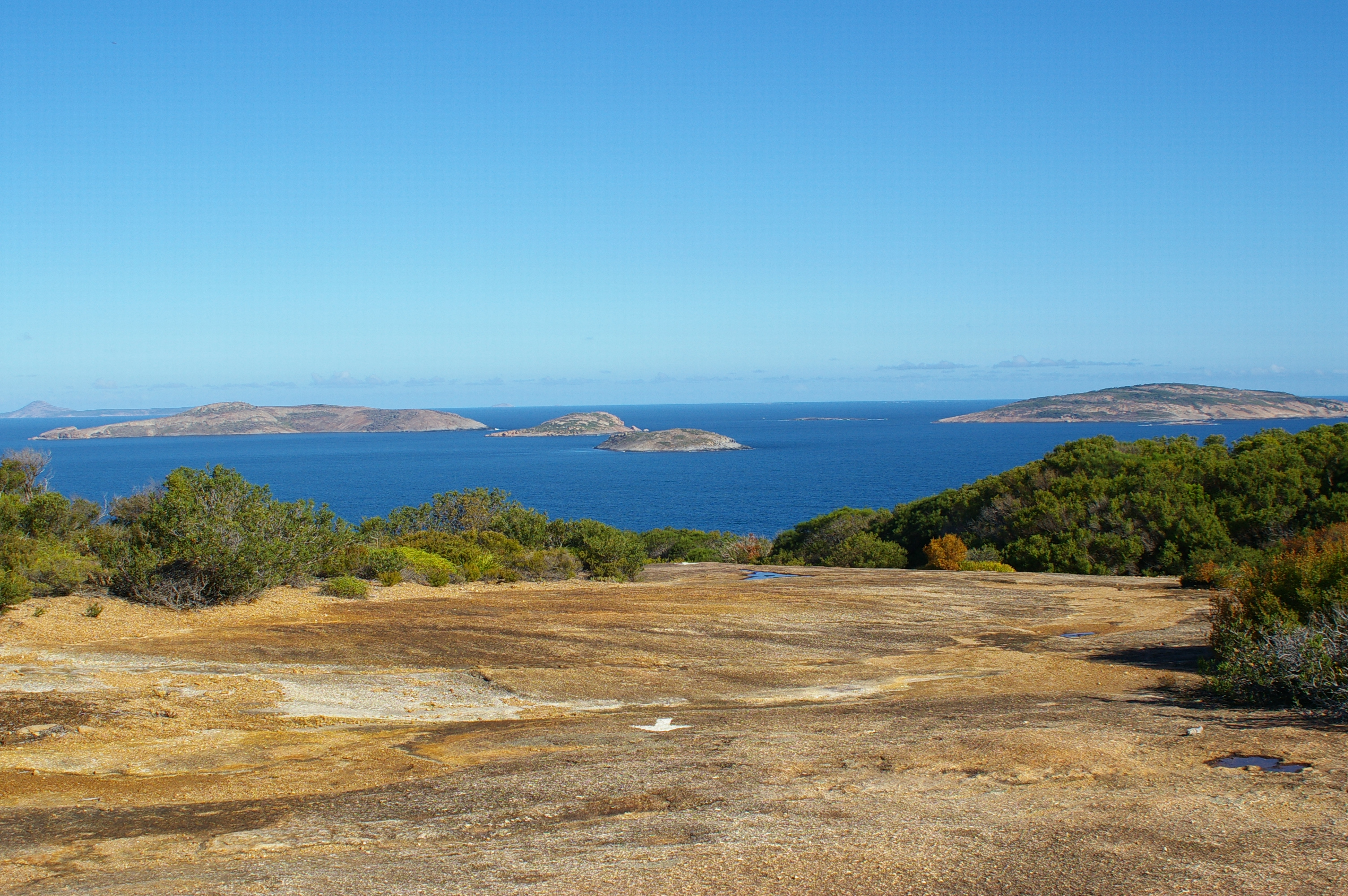 Photo of the Western End of the Recherche archipelago taken from Dempster Head ,Esperance WA